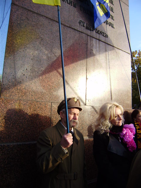 Iryna Farion, leading member of Ukraine's nationalist party.